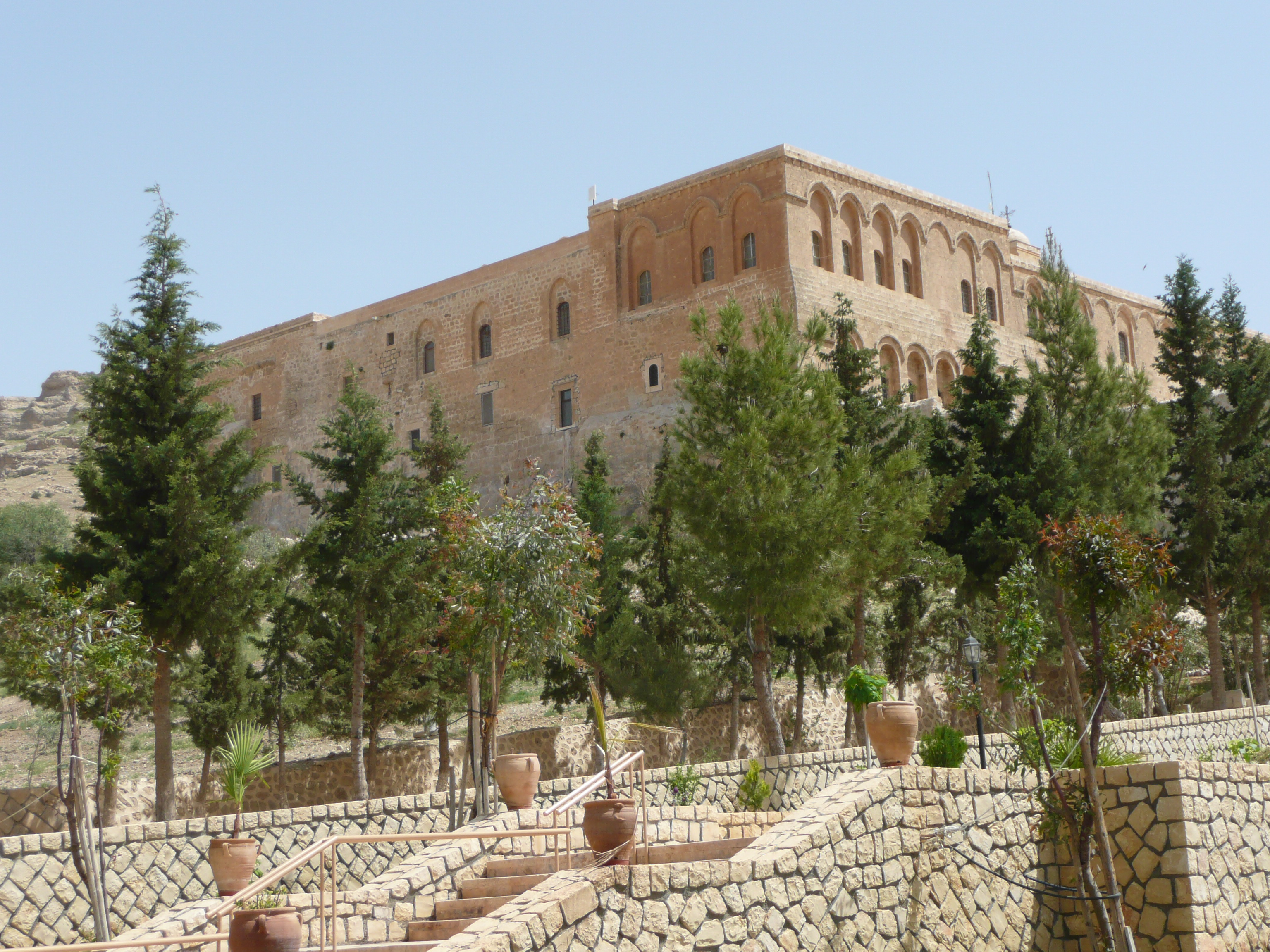 Photographs from Deyrulzaferan Monastry, Mardin, Turkey